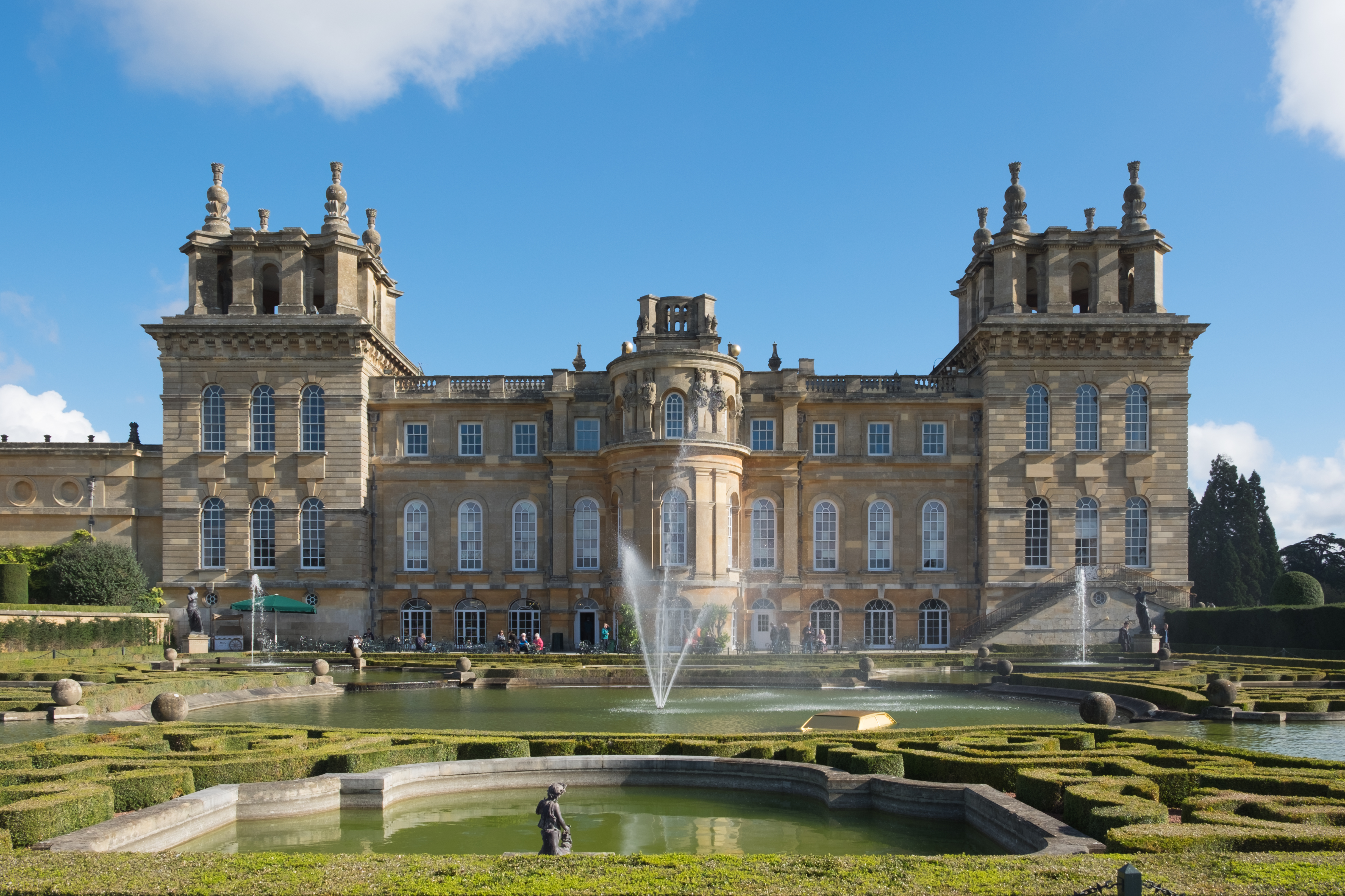 Blenheim Palace from the Water Terraces, a World Heritage Site. This place is a UNESCO World Heritage Site, listed as Blenheim Palace.